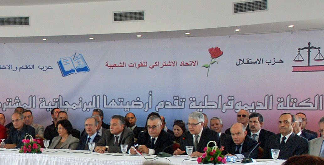 leaders 2011 election alliance (al-Koutla) grouping the Istiqlal, USFP and PPS